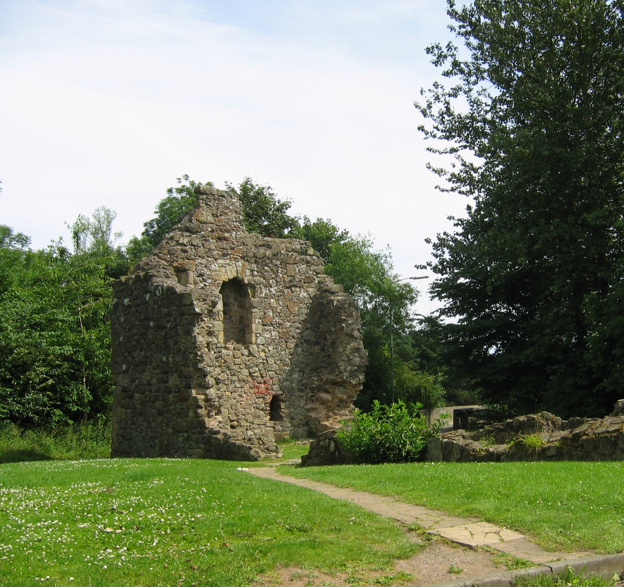 Pitcairn House, Glenrothes, Fife, Scotland. Taken by User:Supergolden on 14th July 2006.